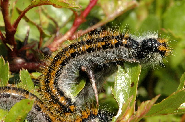 Picture taken in Commanster, Belgian High Ardennes . Species: Aporia crataegi caterpillar